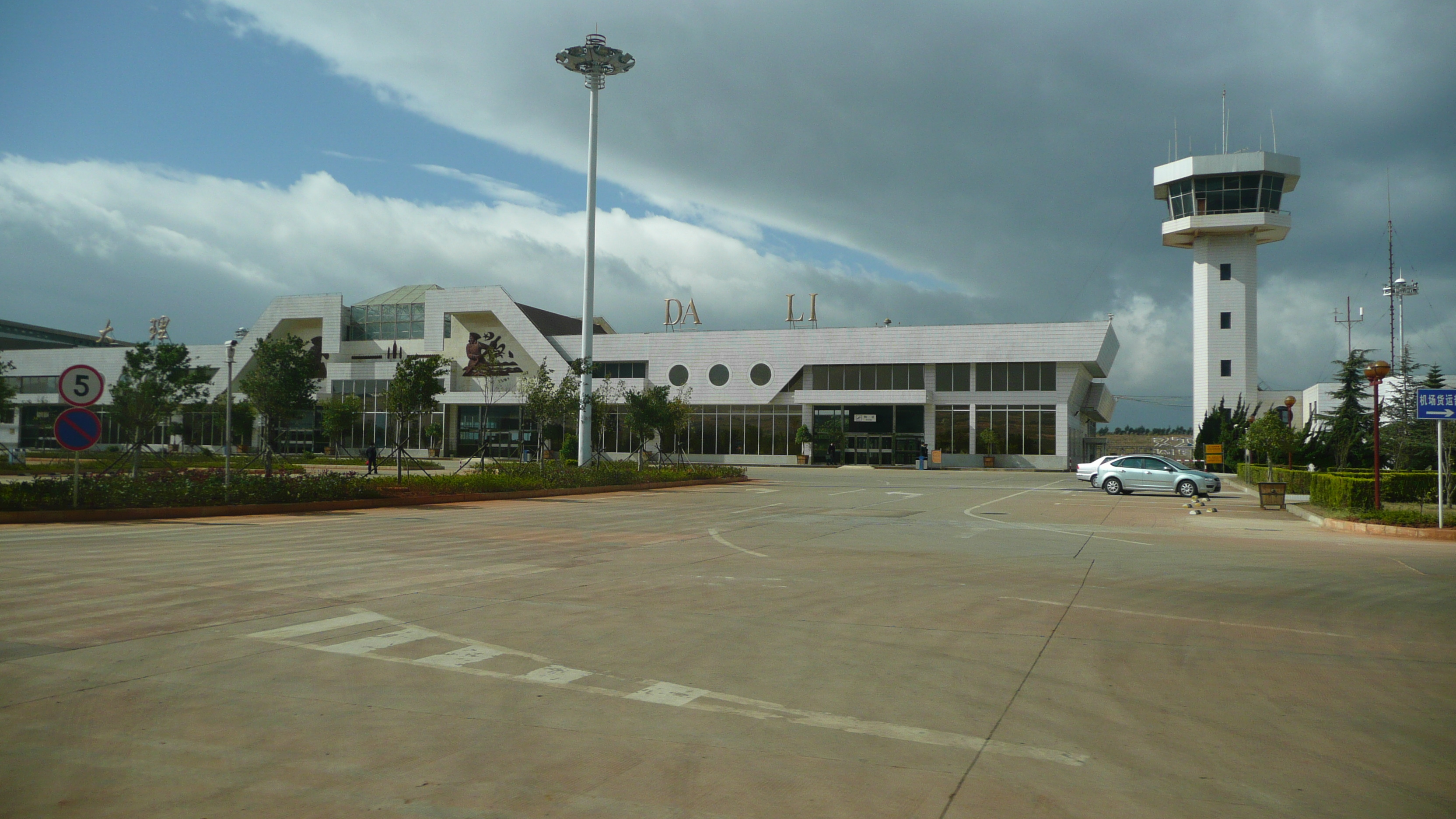 Dali Airport (Yunnan)